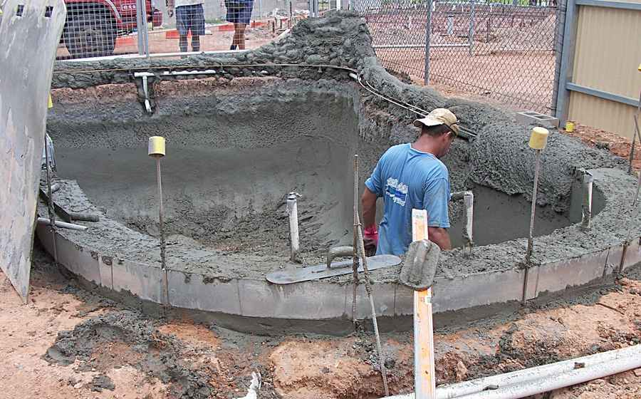 Photograph by Bill Bradley. billbeee 18:02, 6 November 2007 (UTC) Feel free to use it, just credit me as the photographer. You can contact me through my website my website